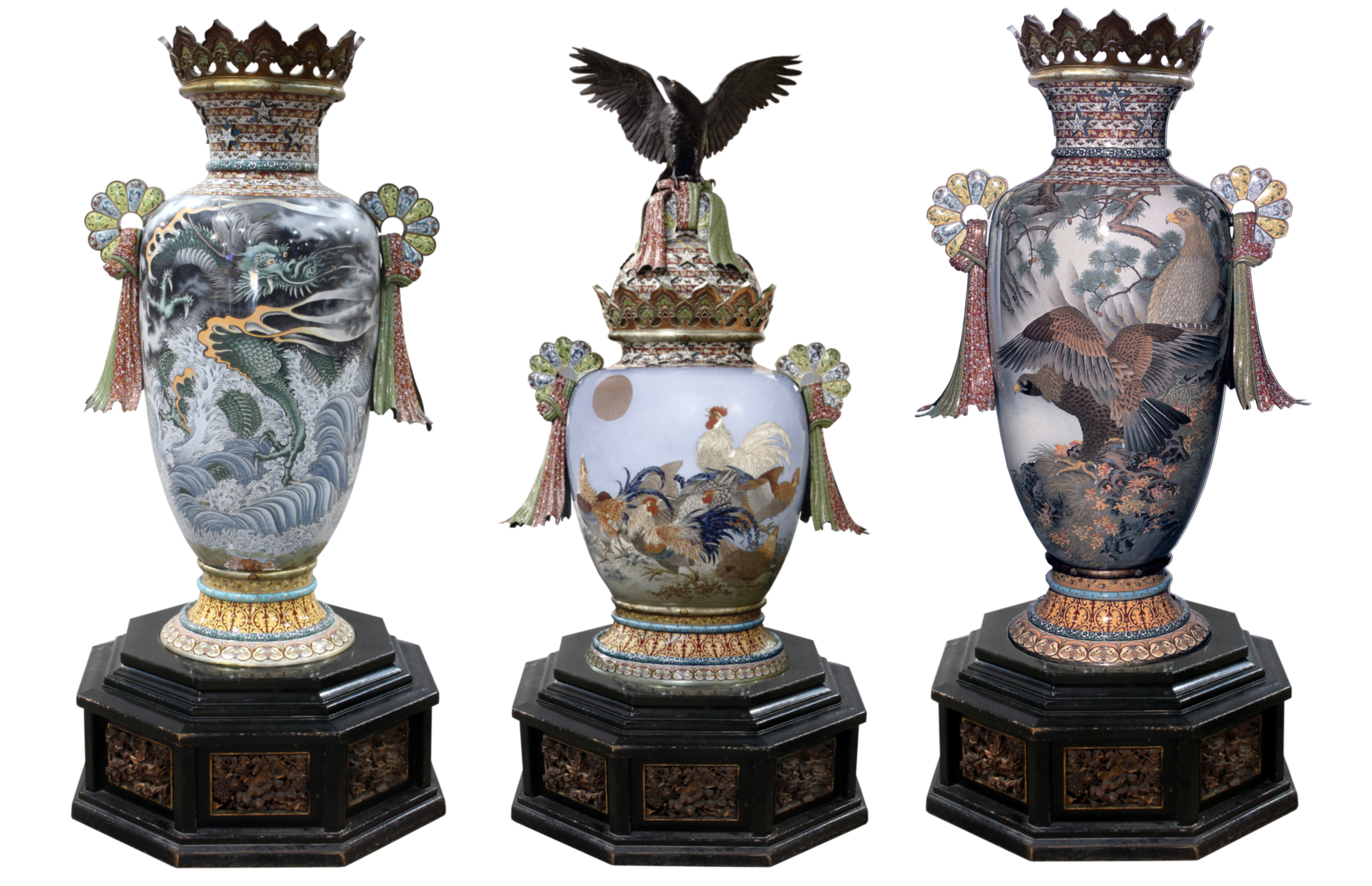 A triptych of Japanese cloisonné vases in the Khalili Collection of Japanese Art of the Meiji Era